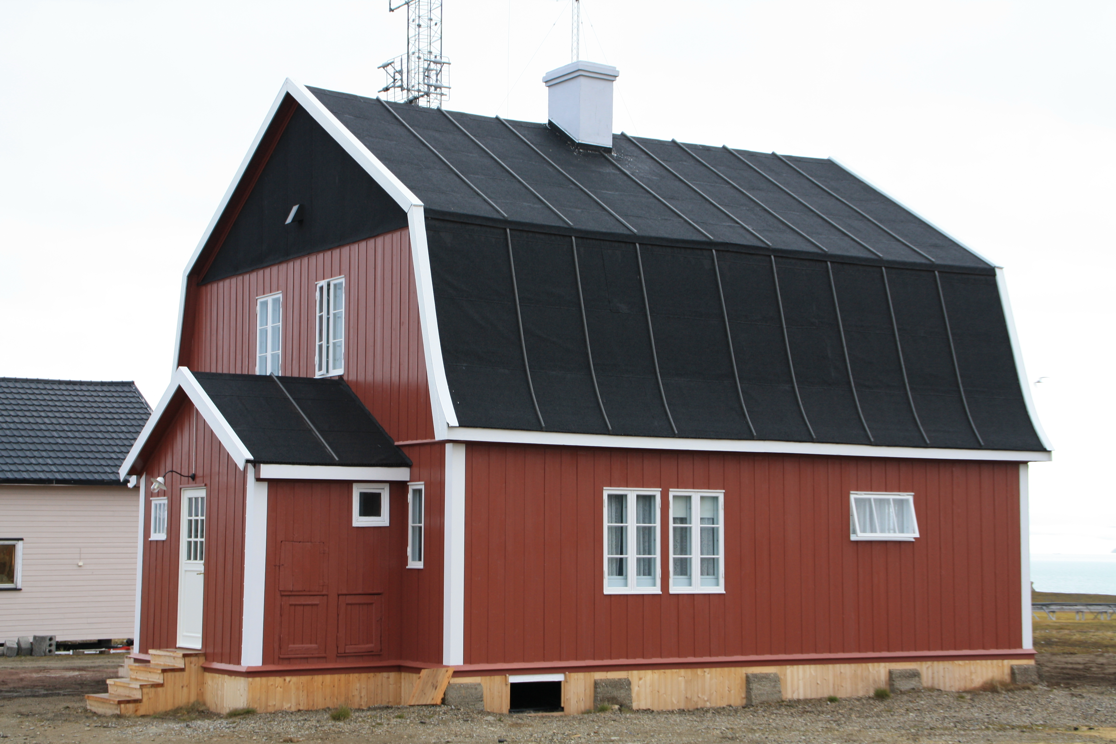 The house, in which Roald Amundsen lived during his stays in Ny-Ålesund.